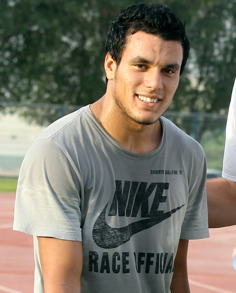 Qatari junior hammer thrower Ashraf Amjad Mohammed with his Russian coach Aleksey Malyukov at the Khalifa International Stadium. Picture by Mohan